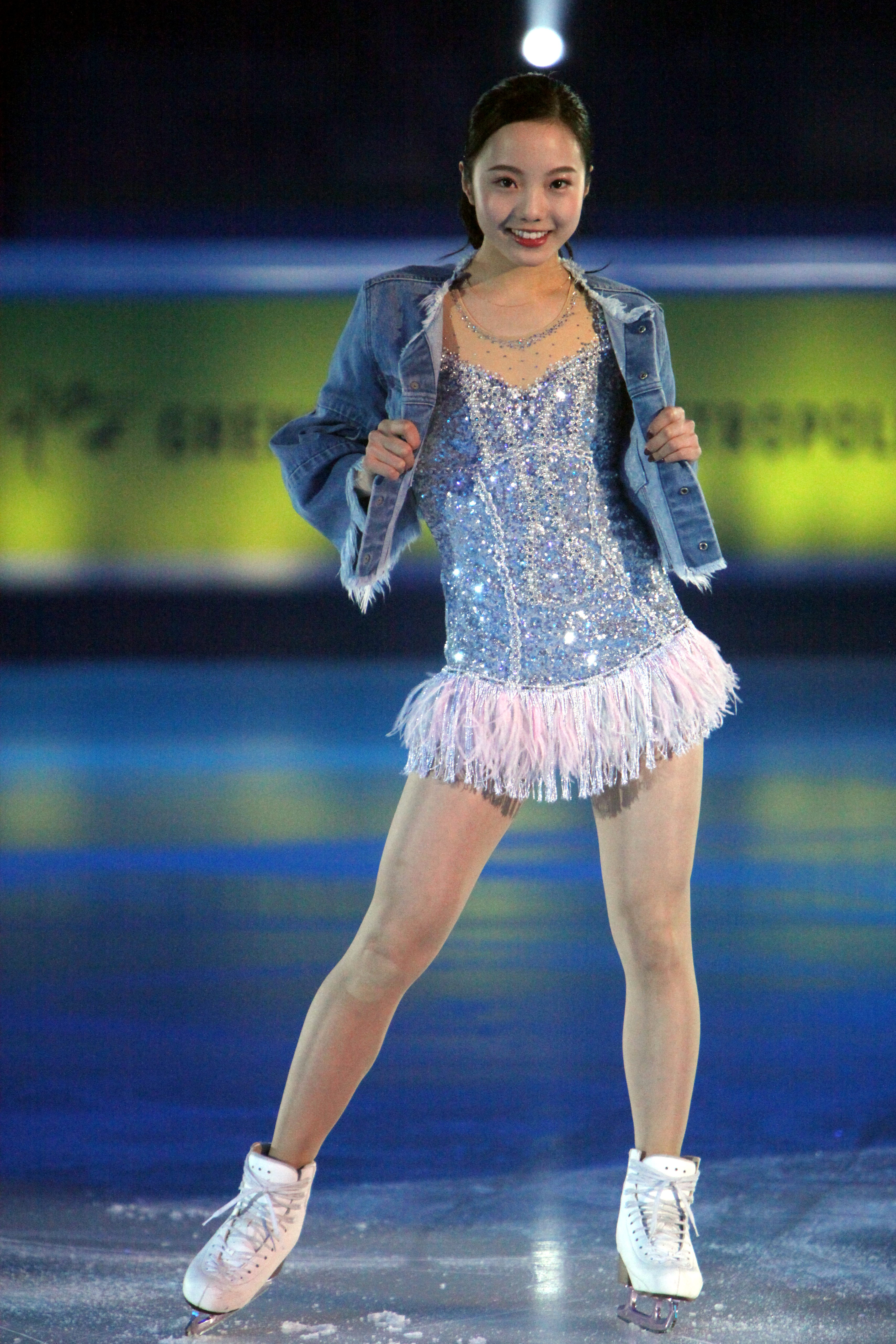 Marin Honda during the gala at the Internationaux de France de Patinage 2018.